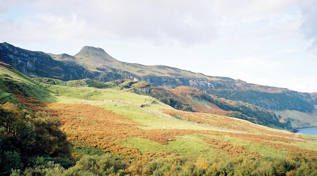 Site of the 'Clearance' village of Hallaig The long wall is part of a huge sheep fank, clearly seen on the OS map. Hallaig is commemorated in a famous poem by Sorley Maclean, one verse runs: ...I'll go to Hallaig, To the sabbath of the dead, Down to where each departed Generation has gathered.